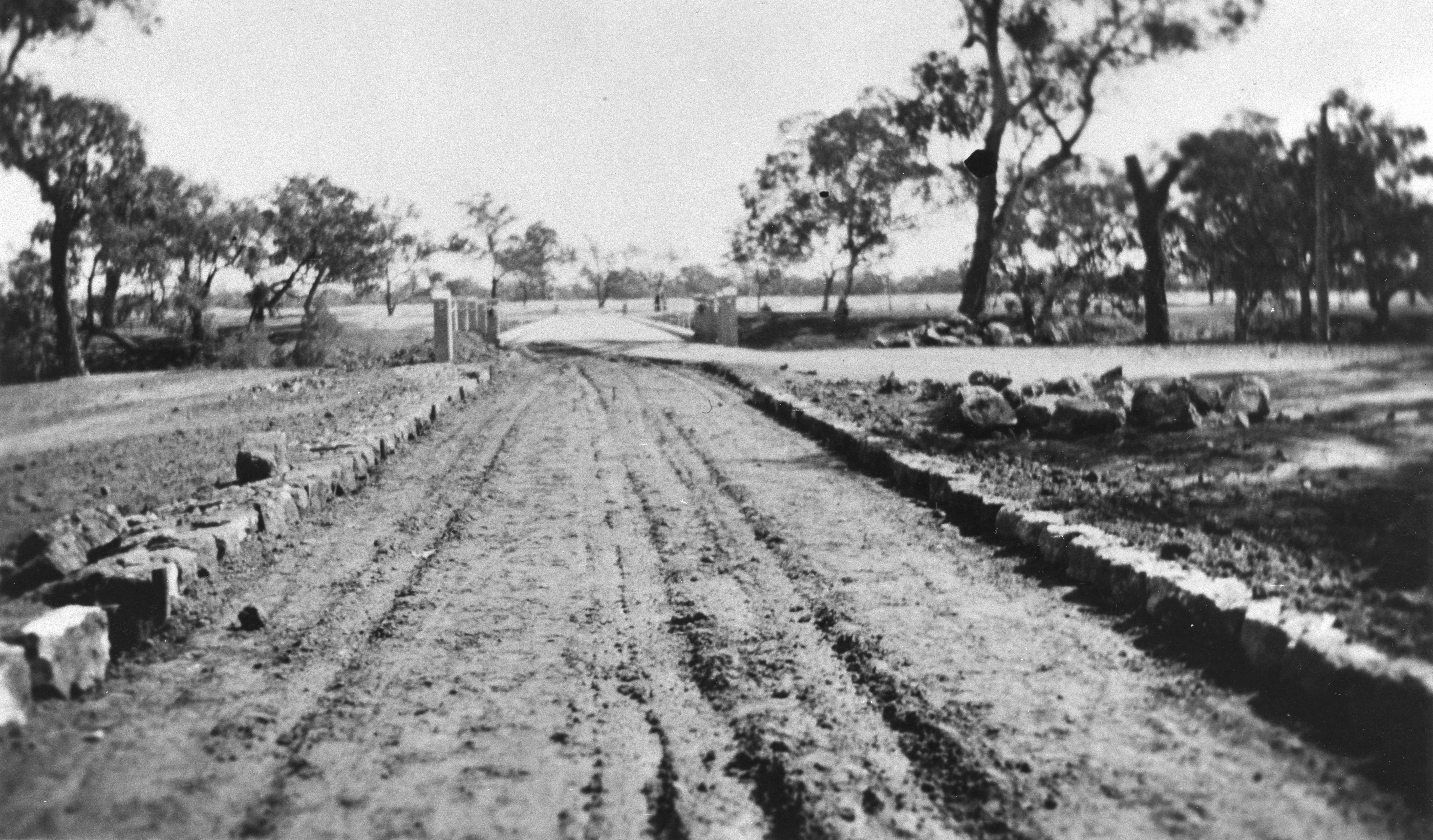 Burringun Road (now the Mitchell Highway) approaching the bridge over Tuen Creek